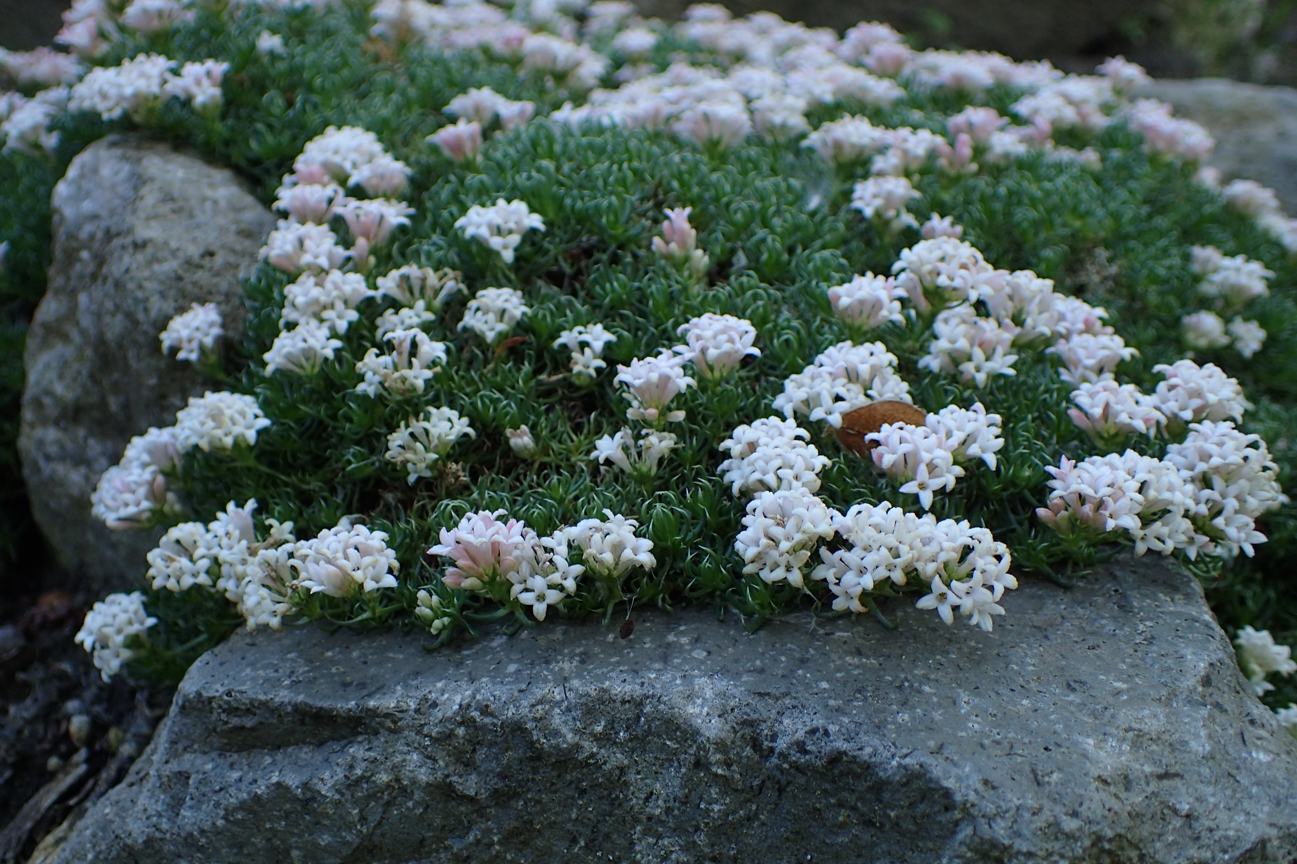 Asperula nitida in Botanical Garden of Szeged